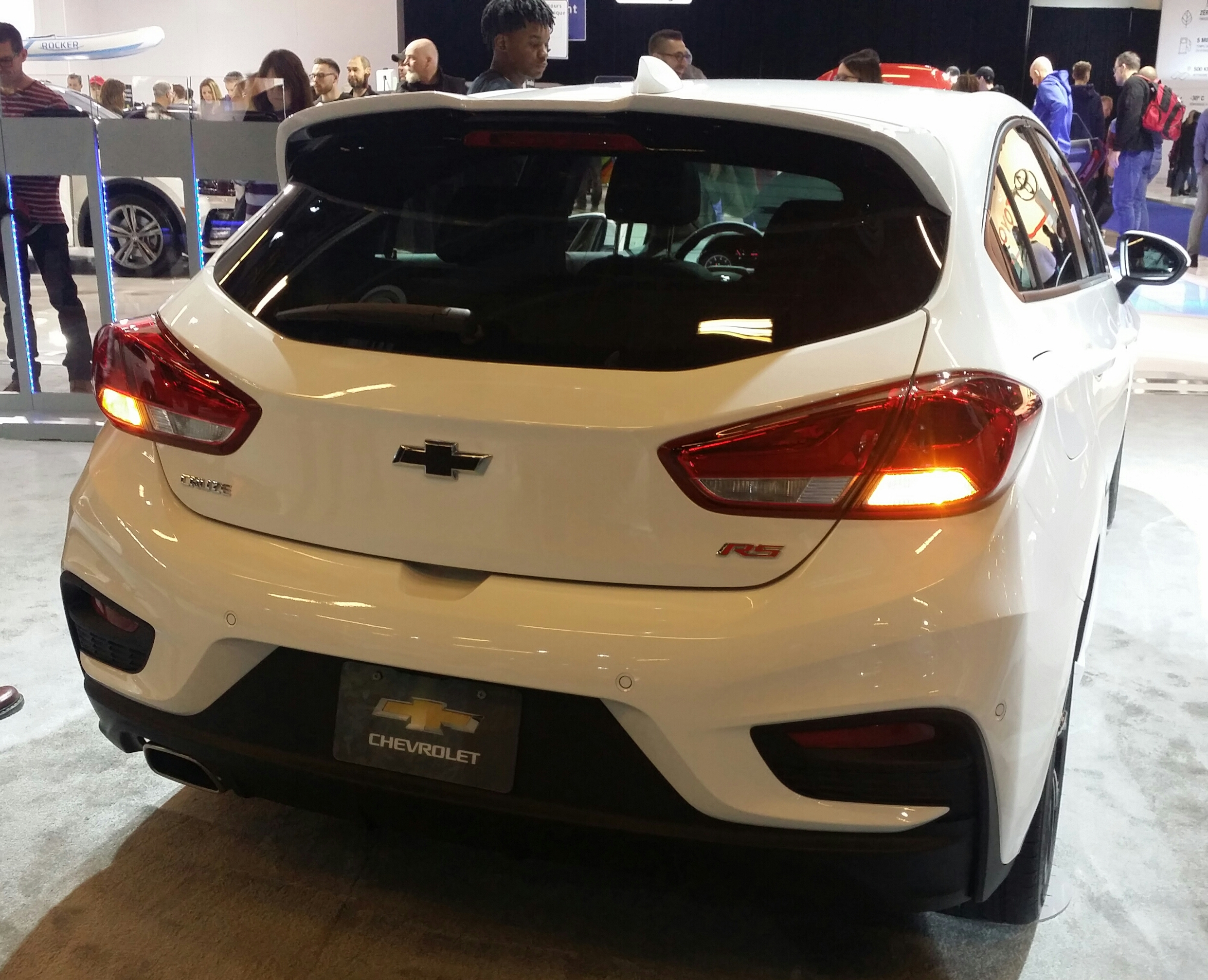 2019 Chevrolet Cruze photographed in Montréal , Québec , Canada at the 2019 Montréal International Auto Show.